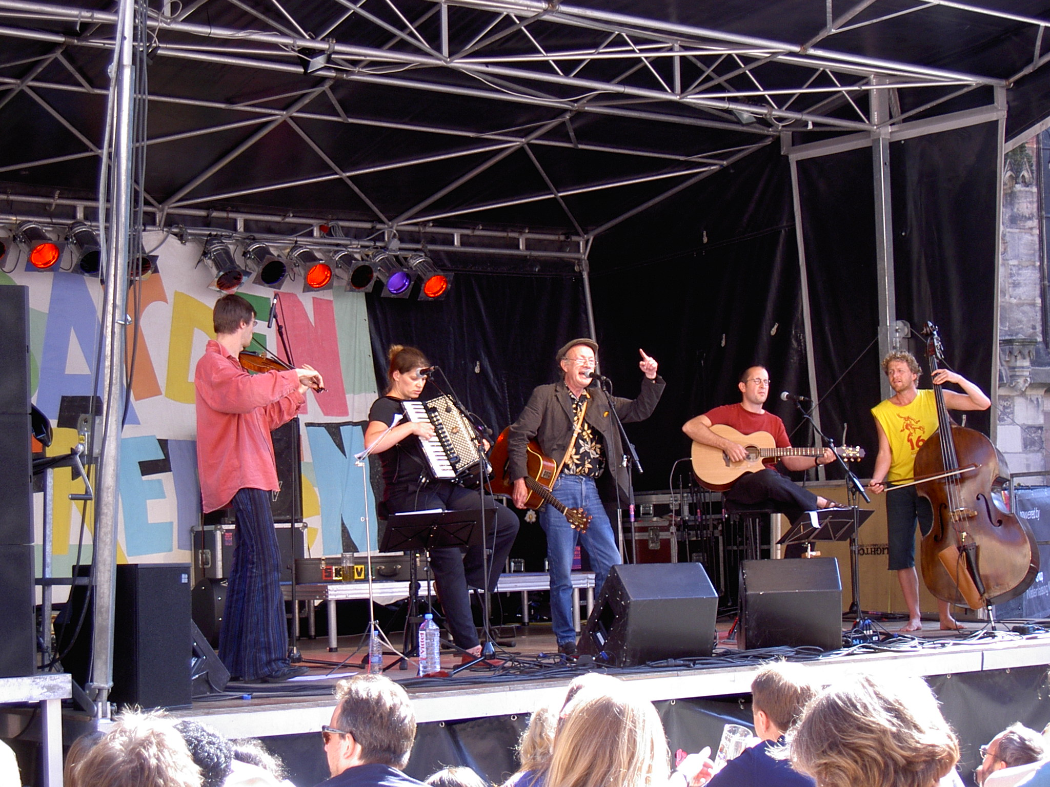 Bernie Conrads (folk singer/songwriter) & Pankraz at the free festival " Bardentreffen" 2005 in Nuremberg / Germany